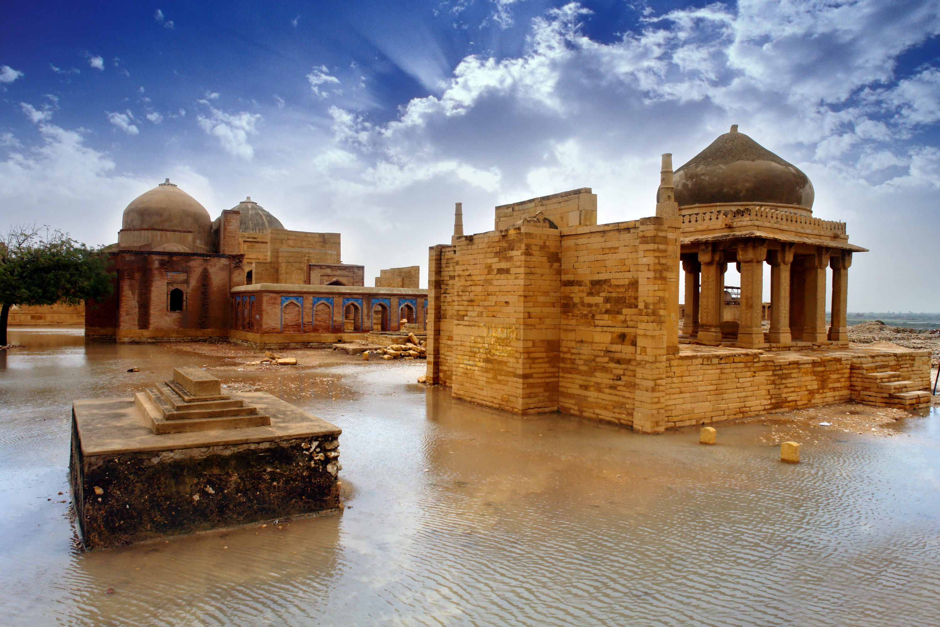 Makli Graveyard " Thatta Sindh - Pakistan '